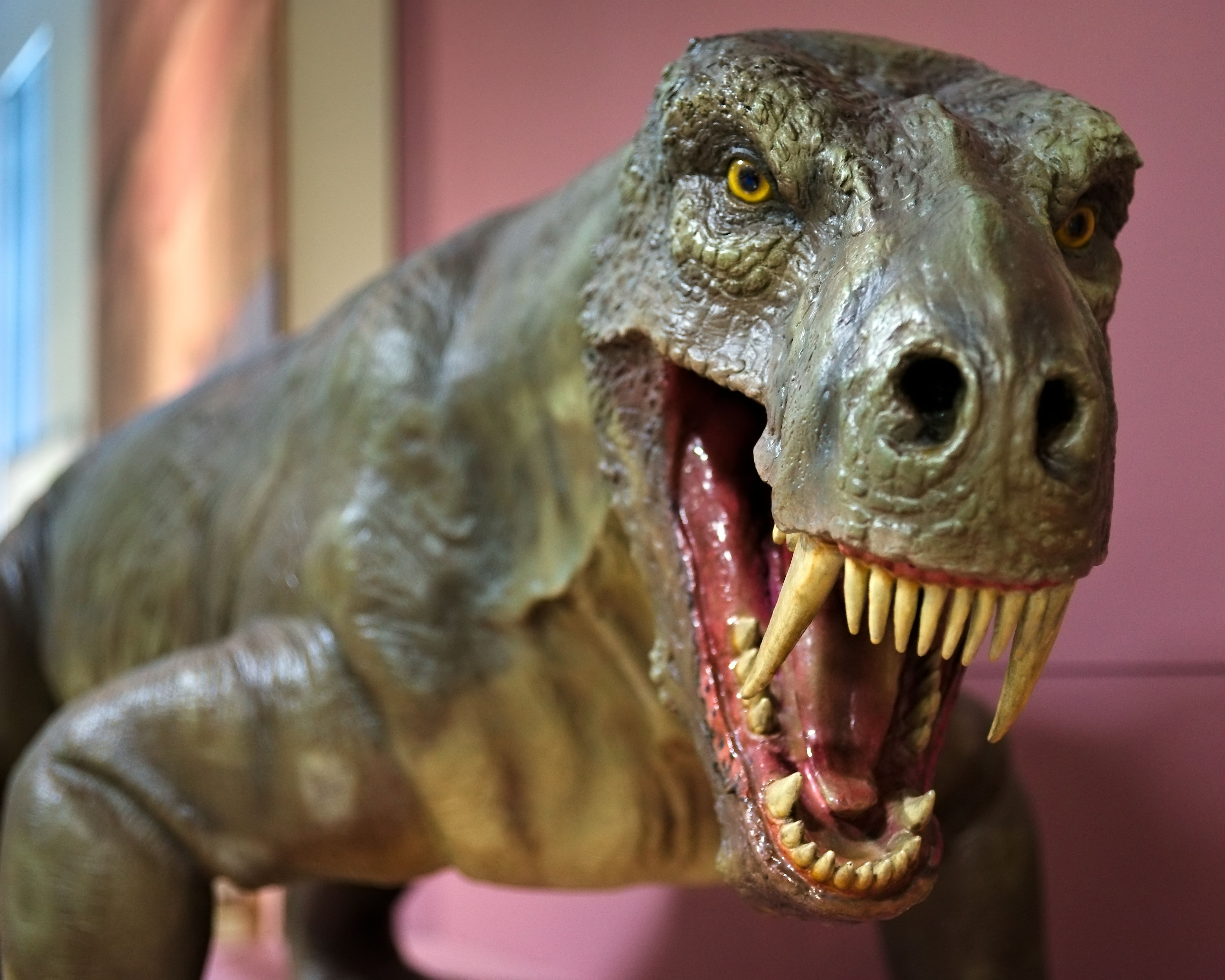 Dinogorgon, Naturkundemuseum Karlsruhe